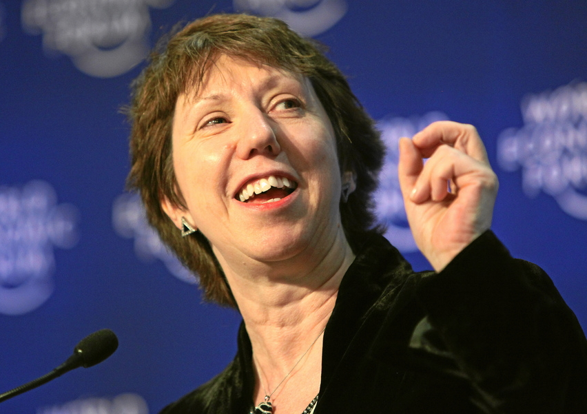 Baroness Ashton of Upholland, Commissioner, Trade, European Commission, Brussels talks to the participants during the session 'The Fight against Protectionism' at the Annual Meeting 2009 of the World Economic Forum in Davos, Switzerland, January 31, 2009.